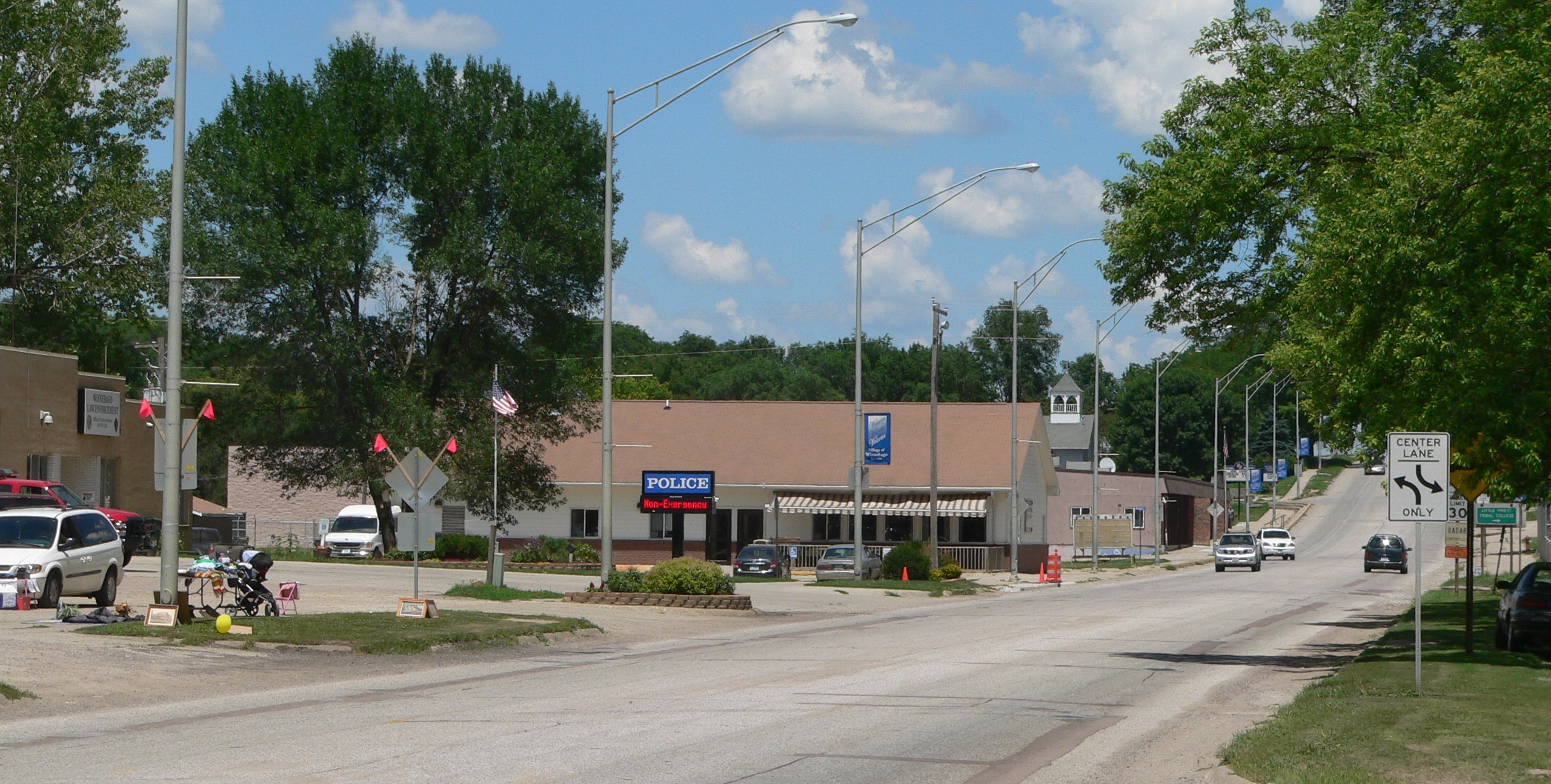 Winnebago, Nebraska: U.S. Highway 75/U.S. Highway 77, seen from the south.